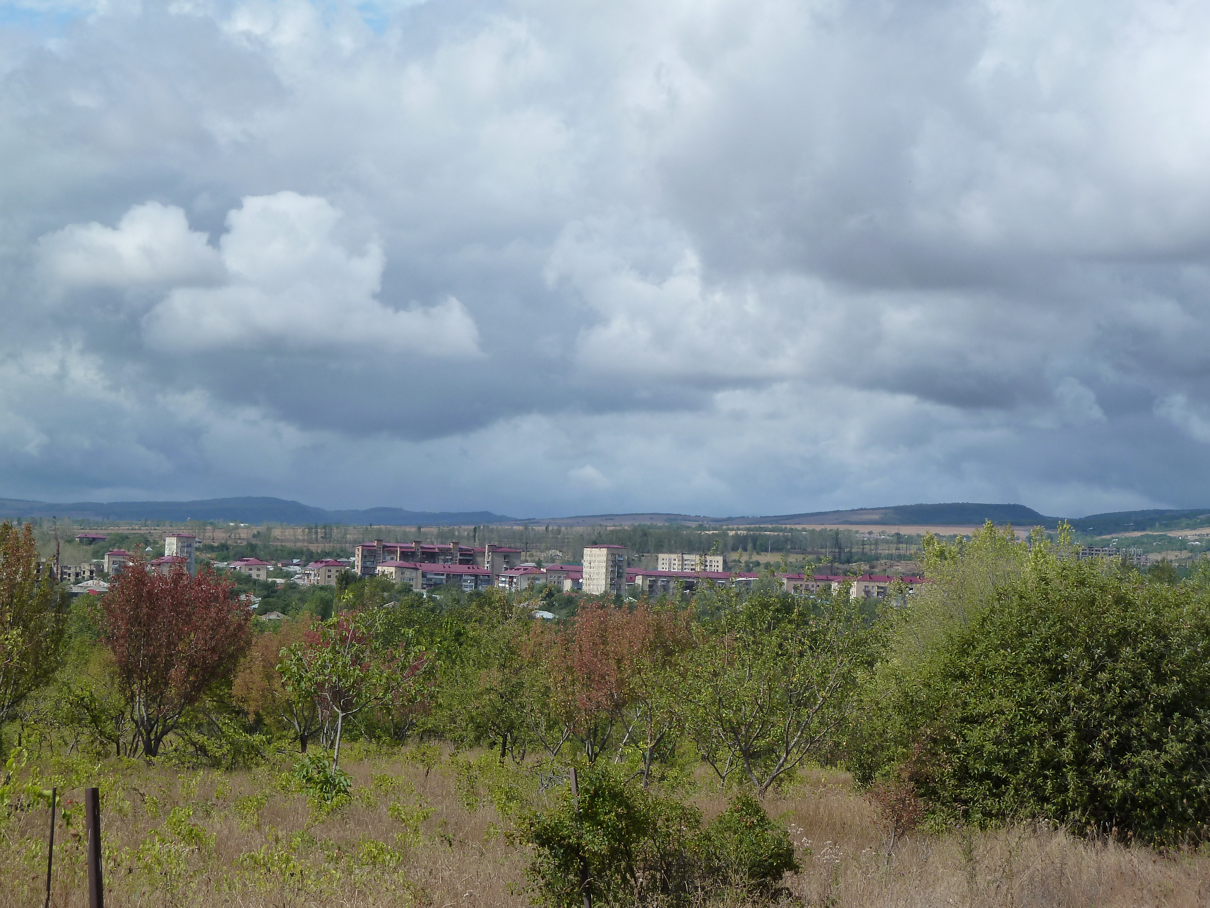 The City of Tskhinvali